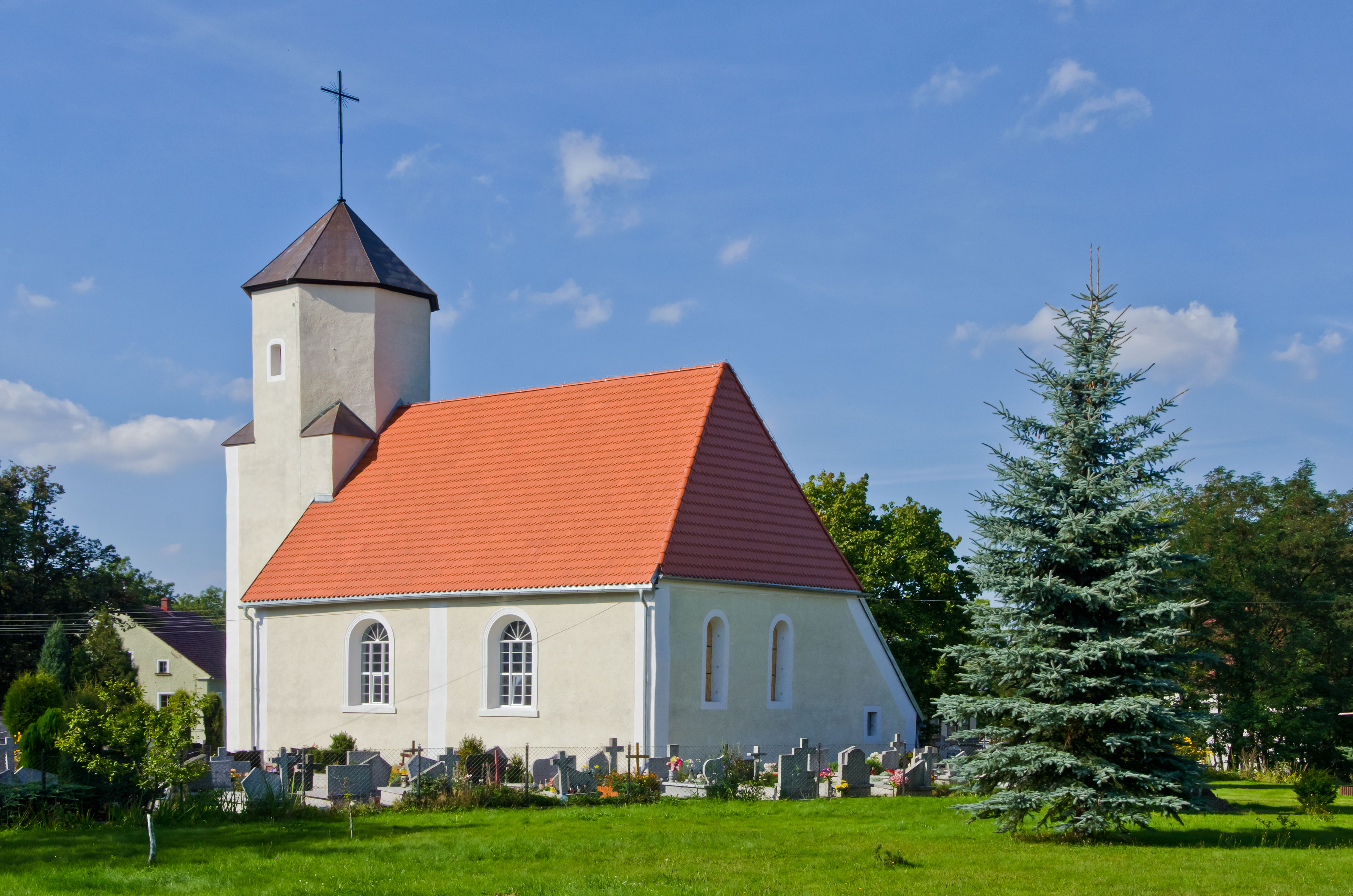 Church of the Visitation of the Blessed Virgin Mary in Rębiszow. Poland.